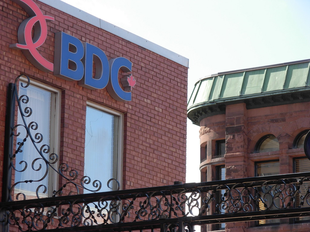 Location of BDC in Moncton